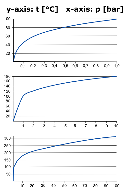 Diagram showing the boiling temperature of water at diffent pressure. Water and steam can coexist at any pressure on this curve, both being at the saturation temperature. Steam at a condition above the saturation curve is known as superheated steam.